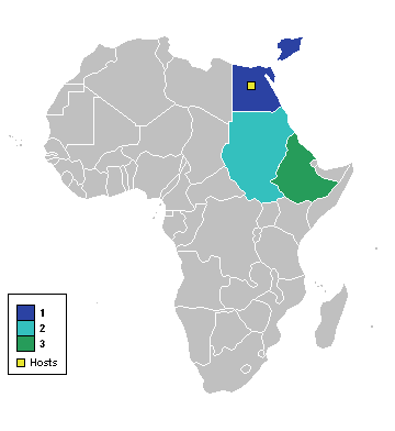 Countries positions in the African Cup of Nations